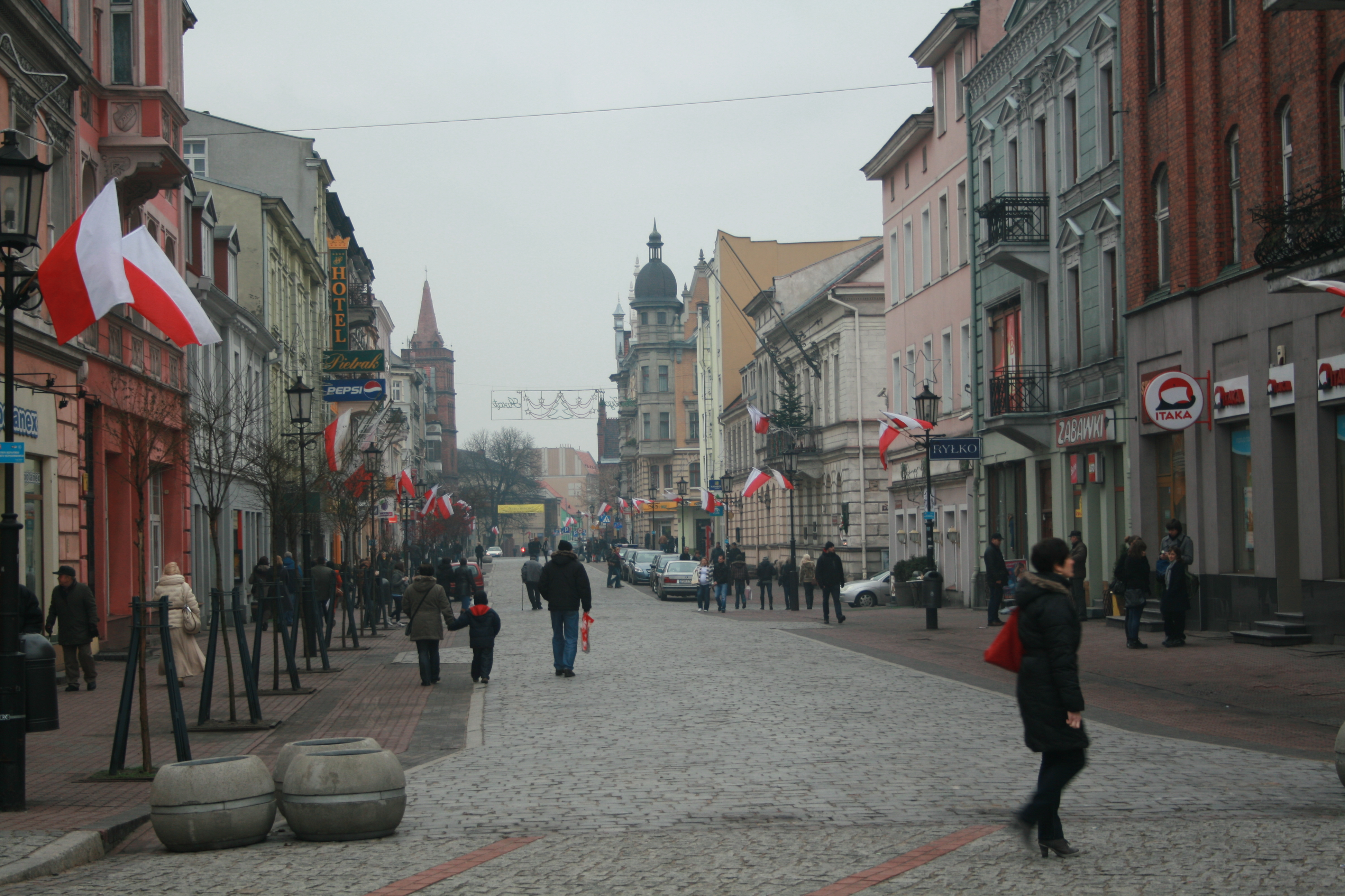 Boleslawa Chrobrego street, Gniezno, Poland